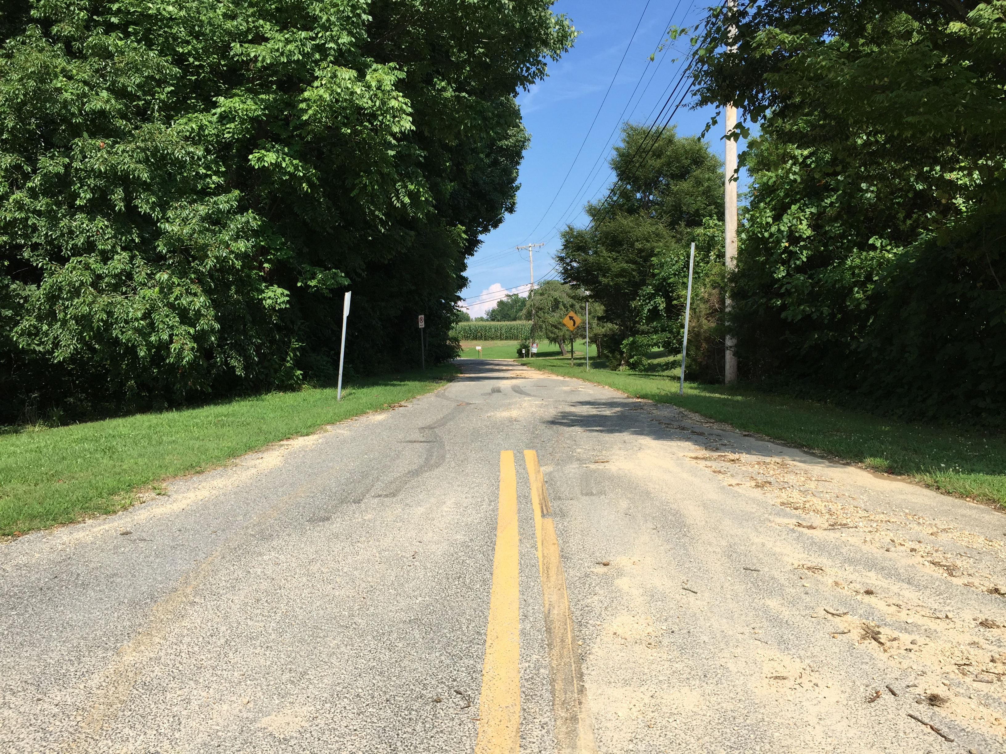 View east from the west end of Maryland State Route 761 (Old Plum Point Road) at Maryland State Route 263 (Plum Point Road) in Parran, Calvert County, Maryland